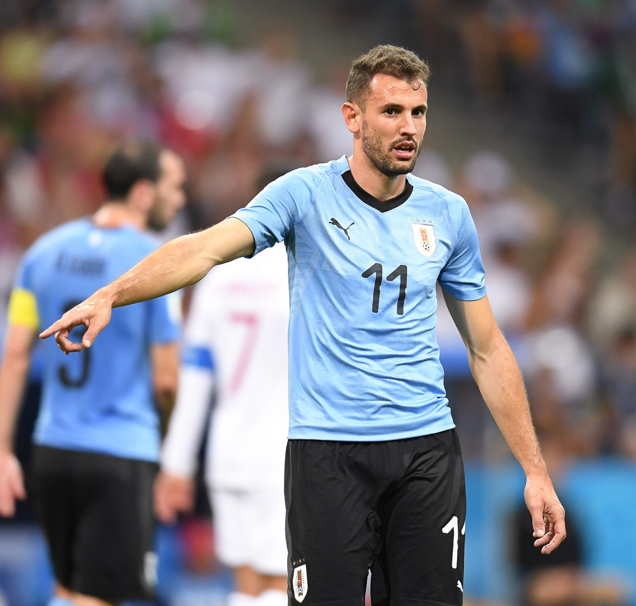 Christian Stuani